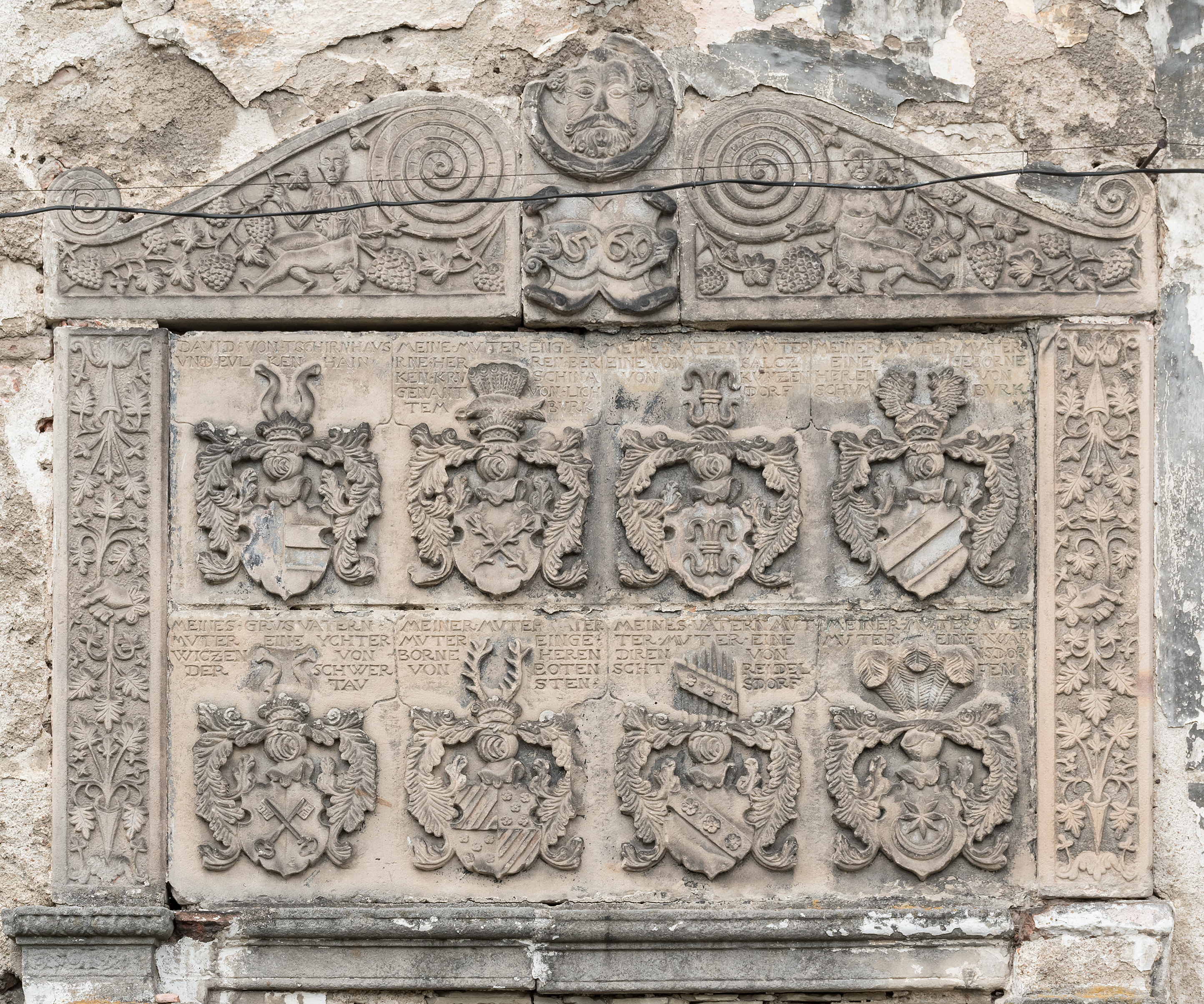 Manor in Roztoki Wikidata has entry Q30049099 with data related to this item.